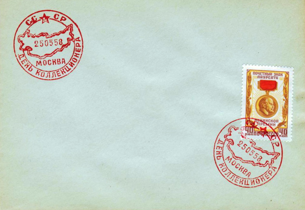 Cover with а cachet "Day of the Collector" issued by the Moscow City Society of Collectors and Philatelists. Stamp of the Soviet Union, Badge of the Lenin Prize Laurеatе, CPA #2149, 1958